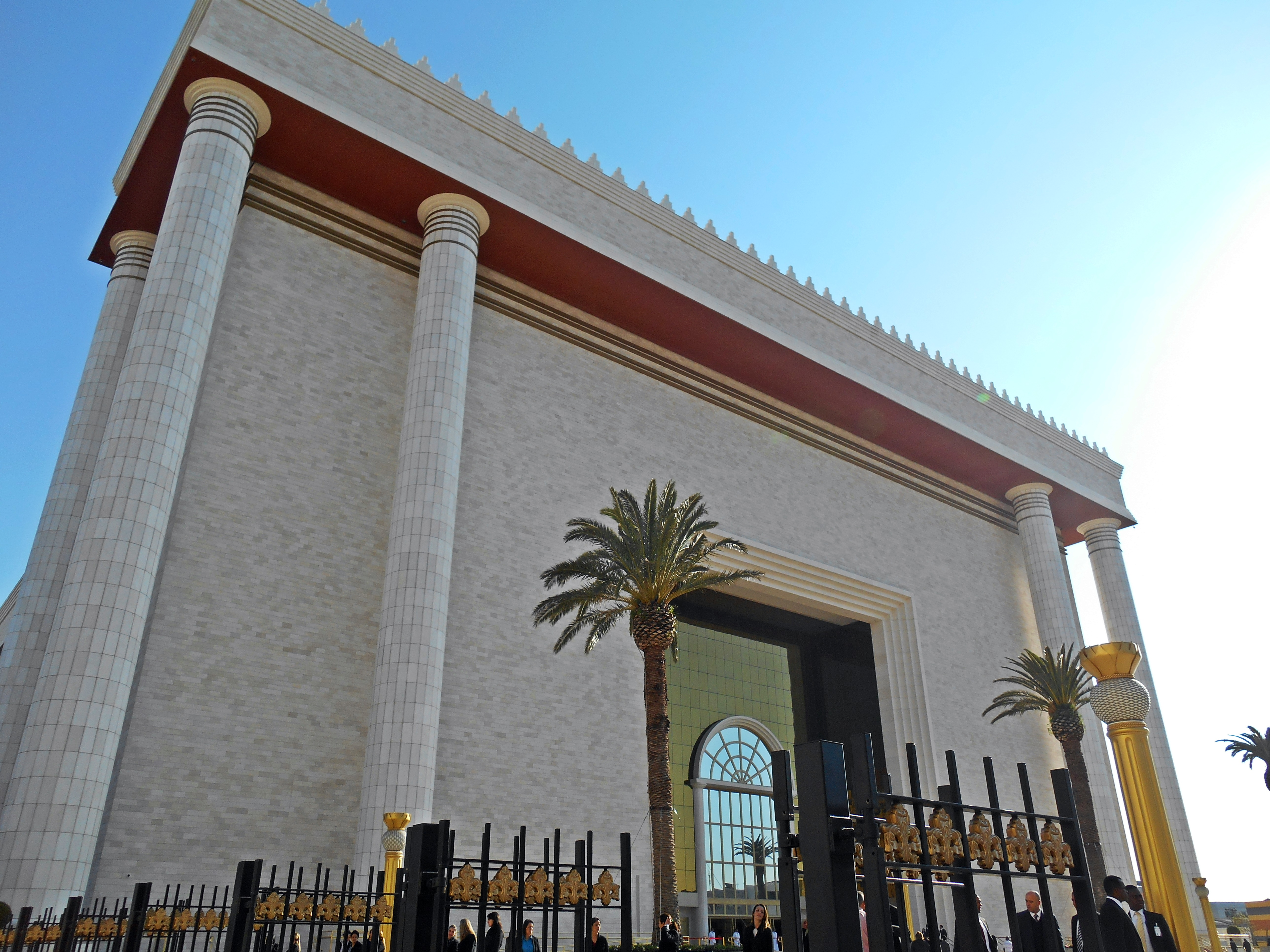 Salomon Temple in São Paulo, Brazil.